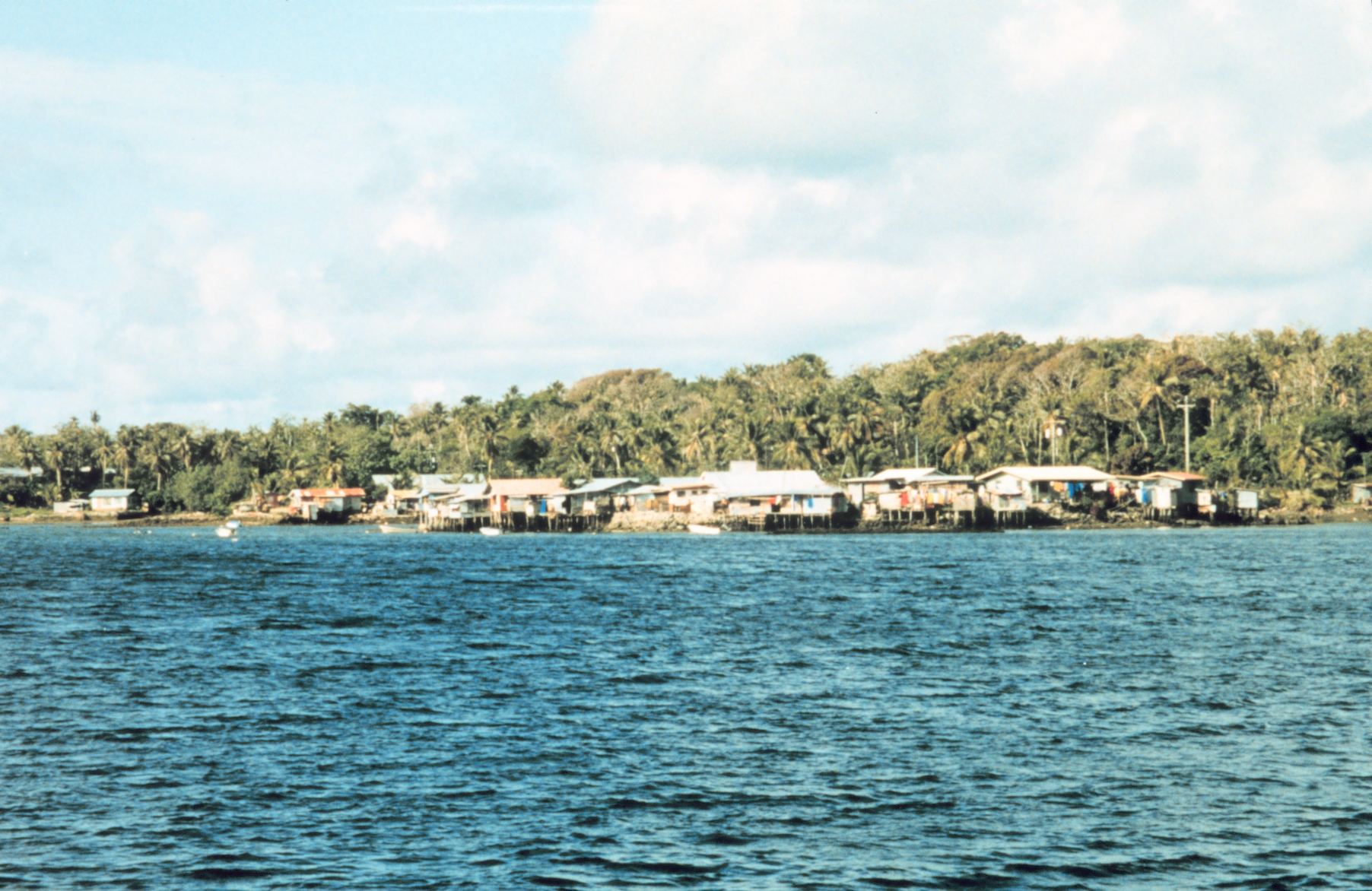 Colonia, the Capital of the state of Yap, Federated States of Micronesia